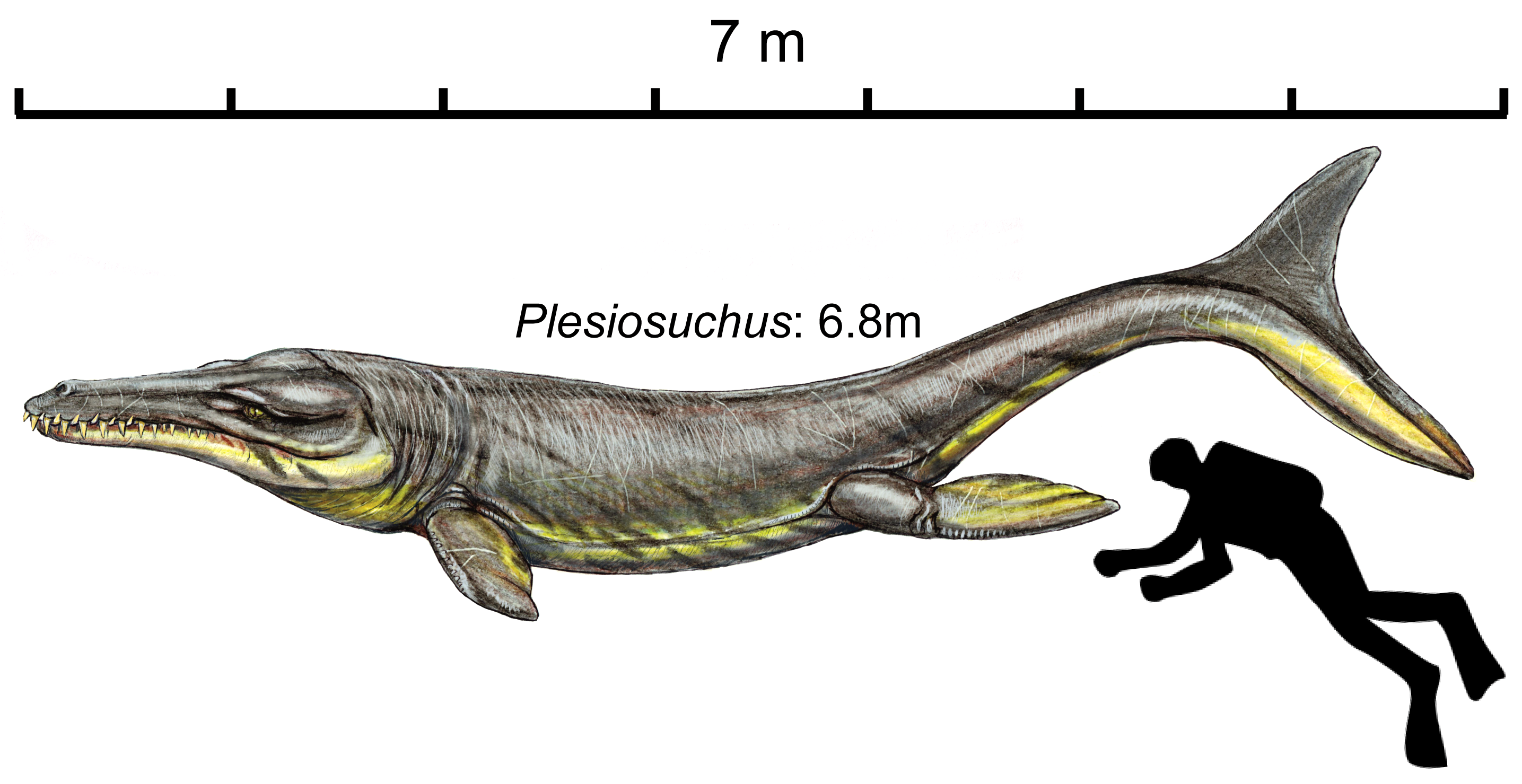 Life reconstruction showing the maximum body length for Plesiosuchus manselii.